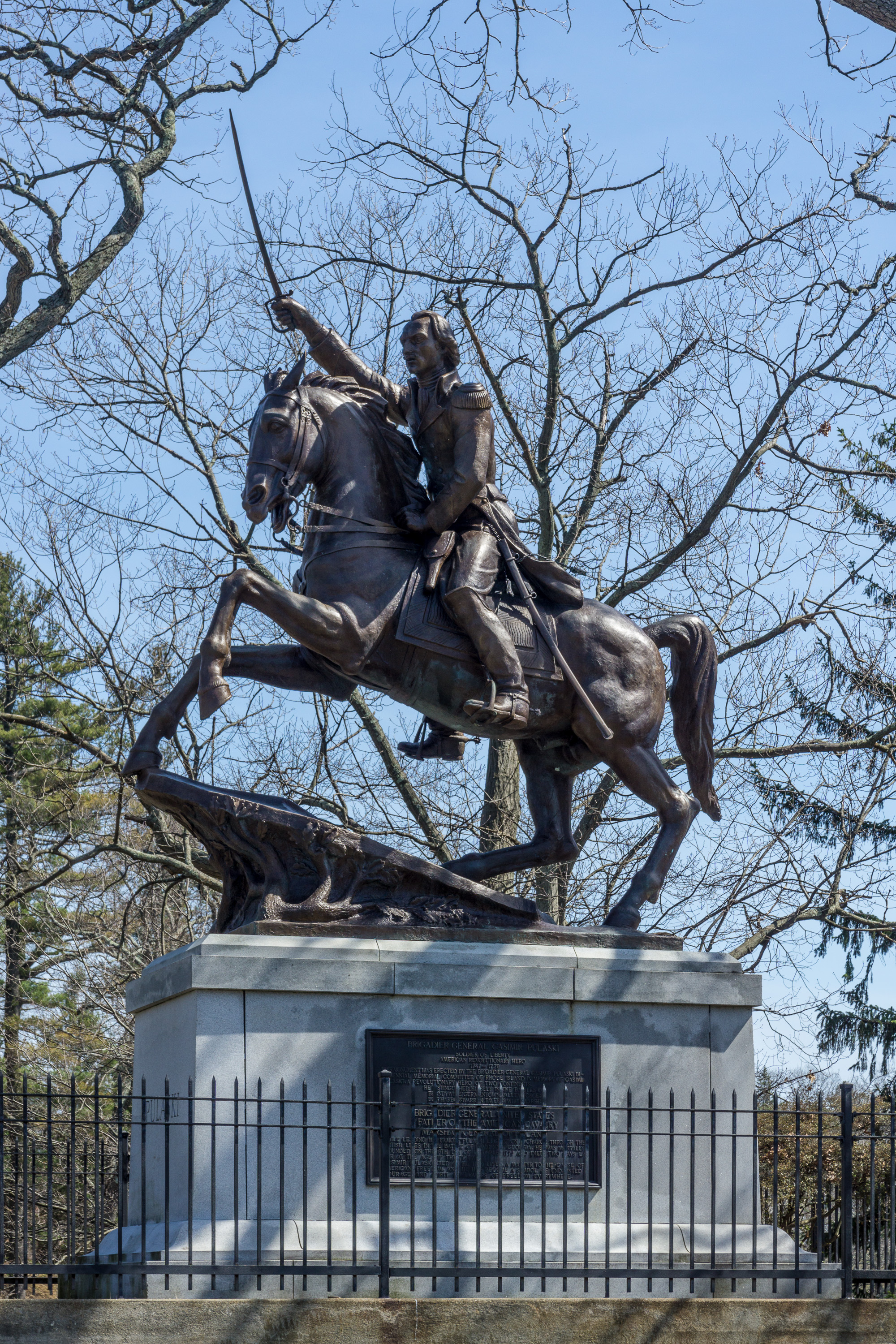 Equestrian statue of Brigadier General Casimir Pulaski is located in Roger Williams Park in Providence Rhode Island